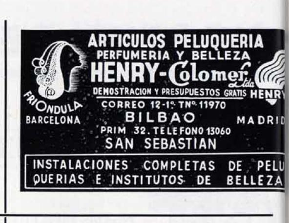 ARTICULOS PELUQUERIA PERFUMERIA Y BELLEZA ENRY-Colomer Ltda. DEMOSTRACION Y PRESUPUESTOS GRATIS CORREO 12 -1.º TNº 11970 PRIM 2. TELEFONO 13060 INSTALACIONES COMPLETAS DE PELUQUERIAS E INSTITUTOS DE BELLEZA FRIONDULA BARCELONA HENRY MADRID